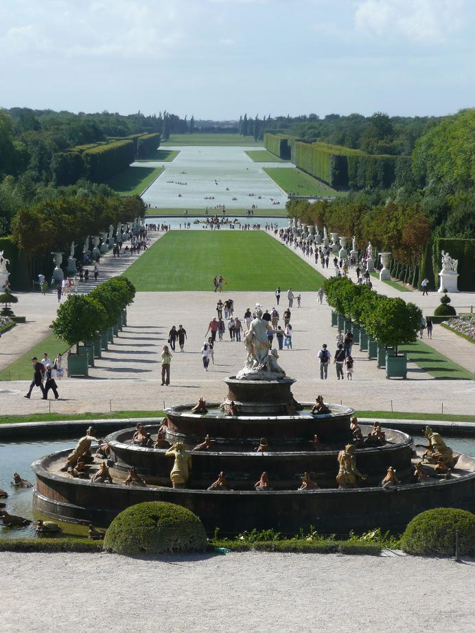 Grand Canal, Palace of Versailles